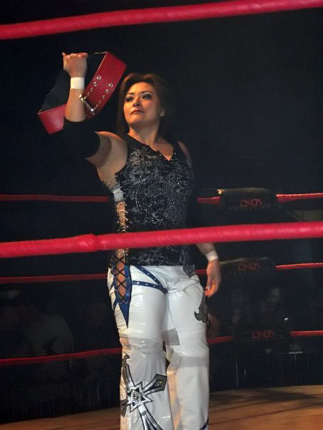 Hamada at a TNA house show in Coventry, West Midlands, 2010